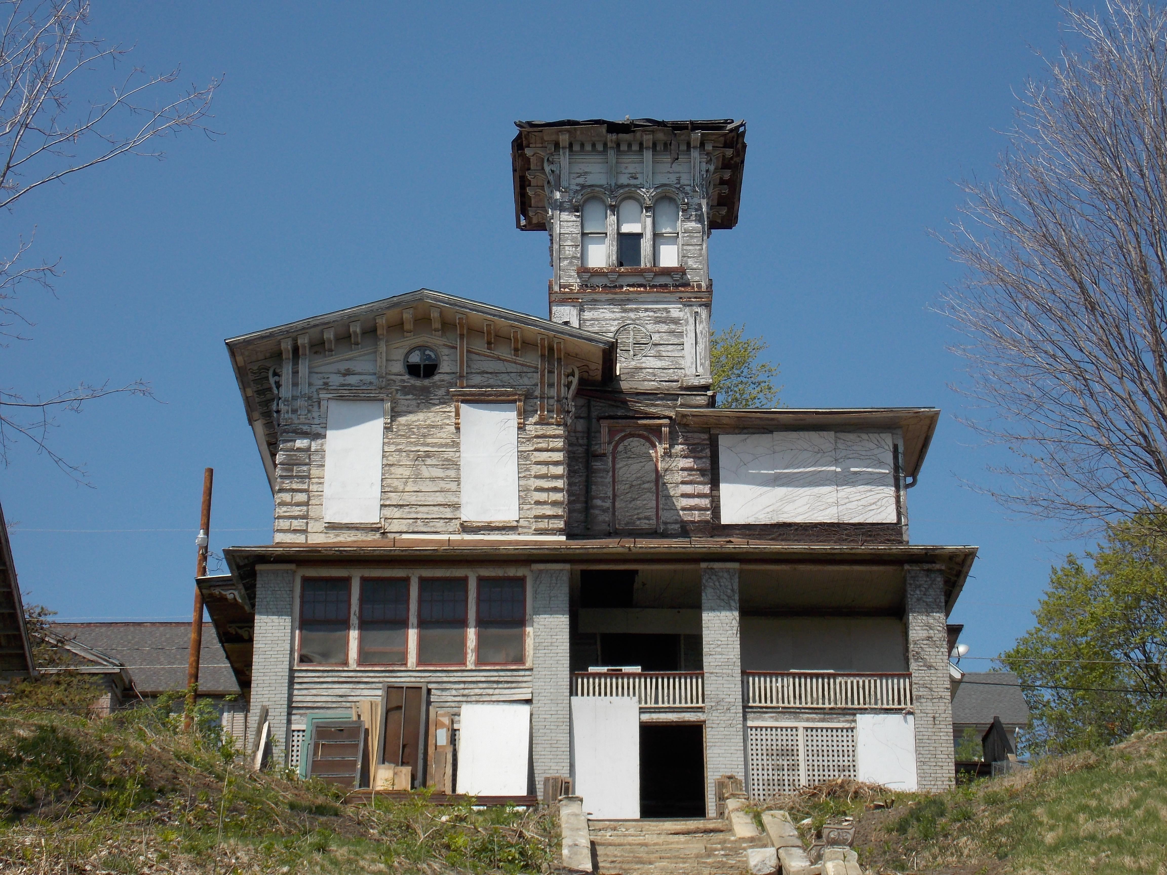 The Lambert-Iles-Petersen House in Davenport, Iowa is a contributing property in the Hamburg Historic District.